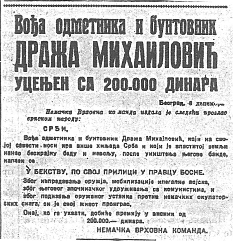 Nazi wanted poster for Mihailovich in 1941: THE LEADER OF OUTLAWS AND A REBELS DRAŽA MIHAILOVIĆ RANSOM 200.000 DINARS Belgrade December 9, 1941 German High Command issued the following proclamation of the Serbian people: SERBS, The leader of an outlaws and a rebels Draža Mihailović, who on his conscience carries blood of thousands of Serbs and wich a their own country has caused immense misery and distress, after the destruction of his gang, is ON THE RUN, PROBABLY IN DIRECTION OF BOSNIA. because of refusing to surrender weapons, mobilization illegal army, because of his criminal association with the Communists and because of the raising of armed uprising against German occupation forces, he has squander his life. One who catches him will receive a reward in the amount of 200,000-dinars. GERMAN HIGH COMMAND.